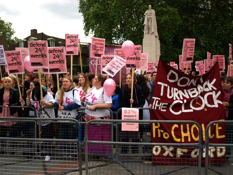 Pro-choice placards